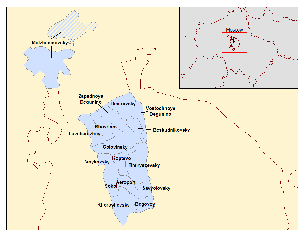 Map of the districts of the Northern Administrative Okrug of the Federal City of Moscow. Created by Rarelibra 20:33, 3 April 2007 (UTC) for public domain use, using MapInfo Professional v8.5 and various mapping resources.